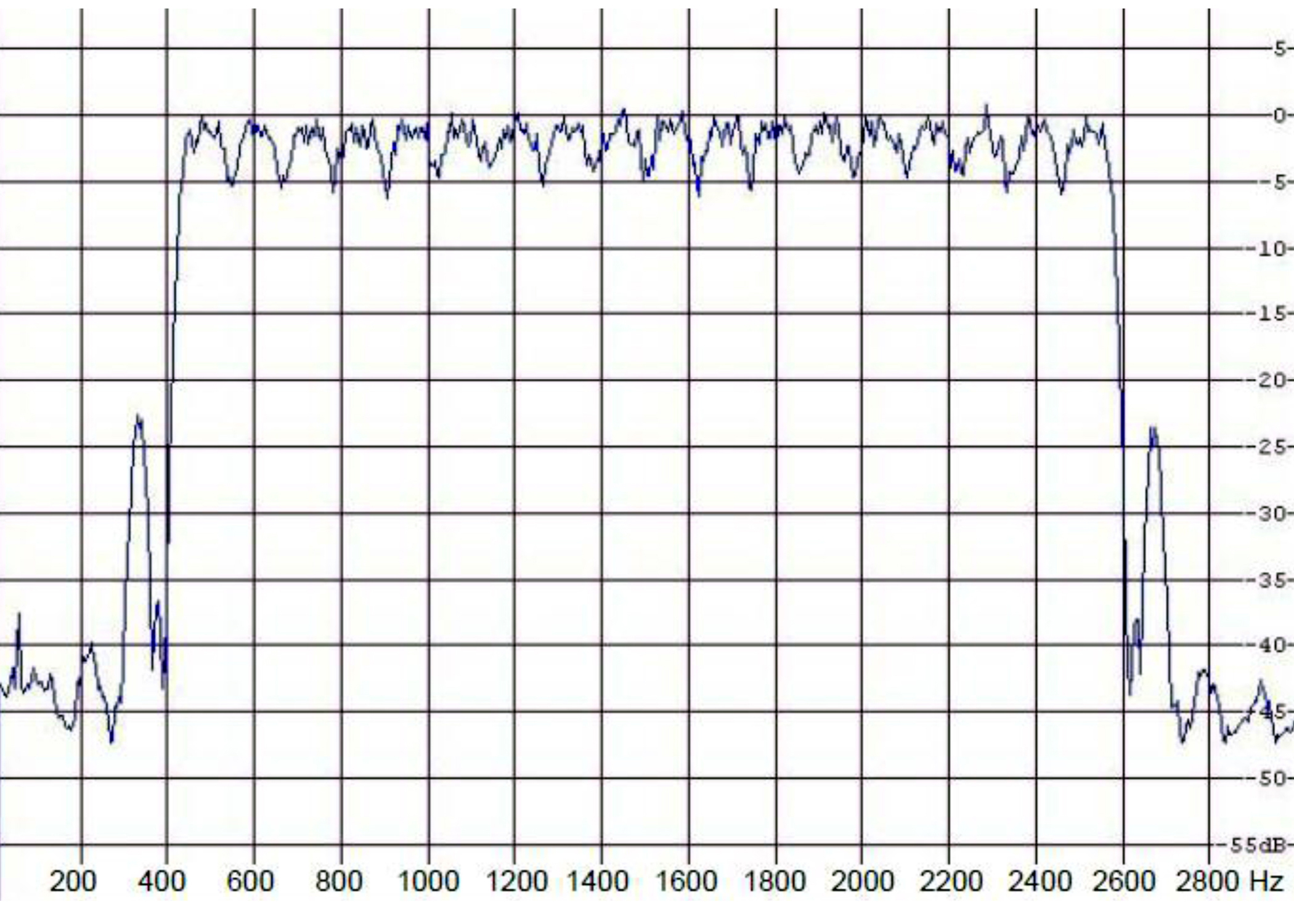 PACTOR-3 speed level 6 (differentially encoded quadrature phase-shift keying, 18 tones spaced 120 Hz with 100 Bd each)